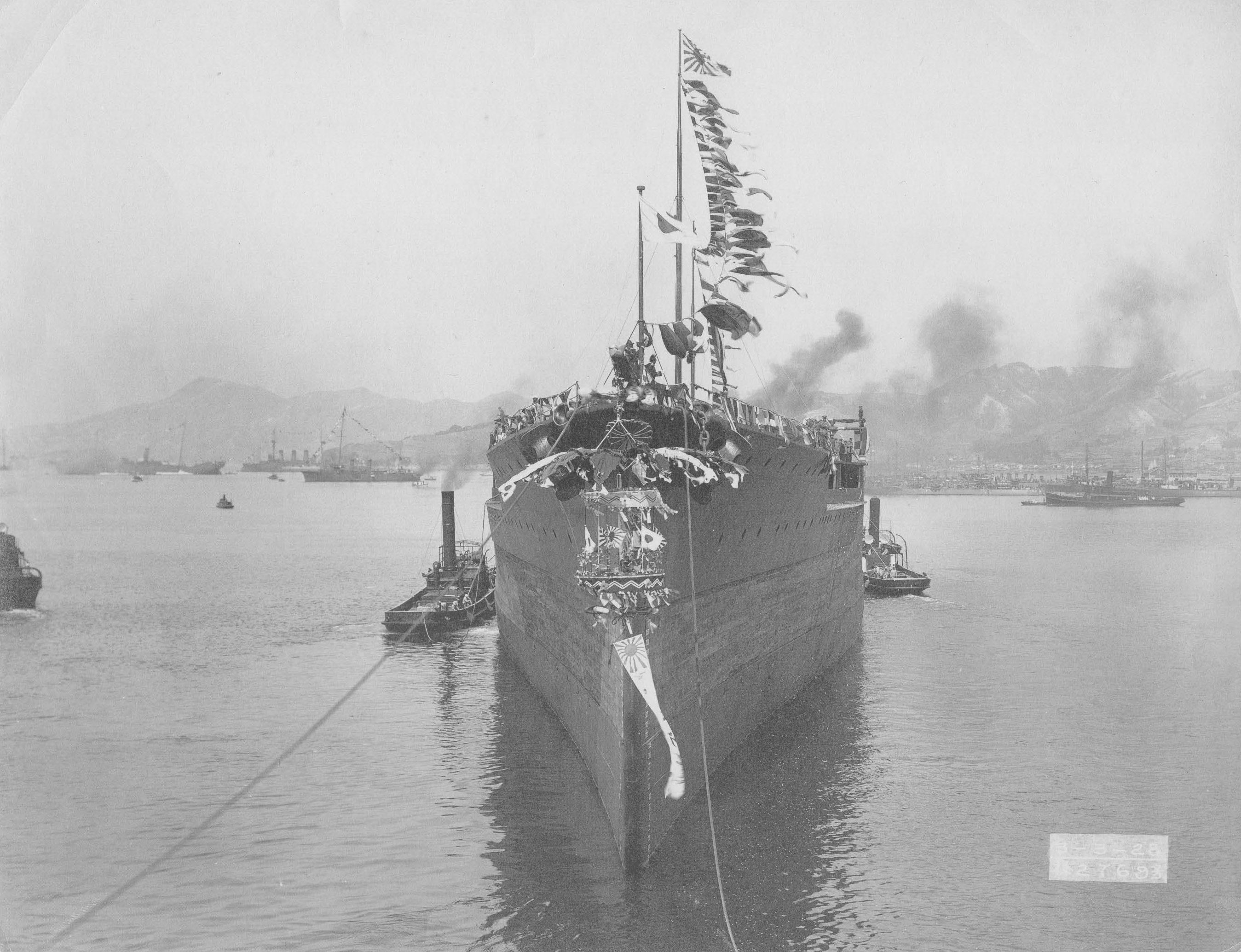 Imperial Japanese Navy battlecruiser Fusō is launched at Kure, Japan